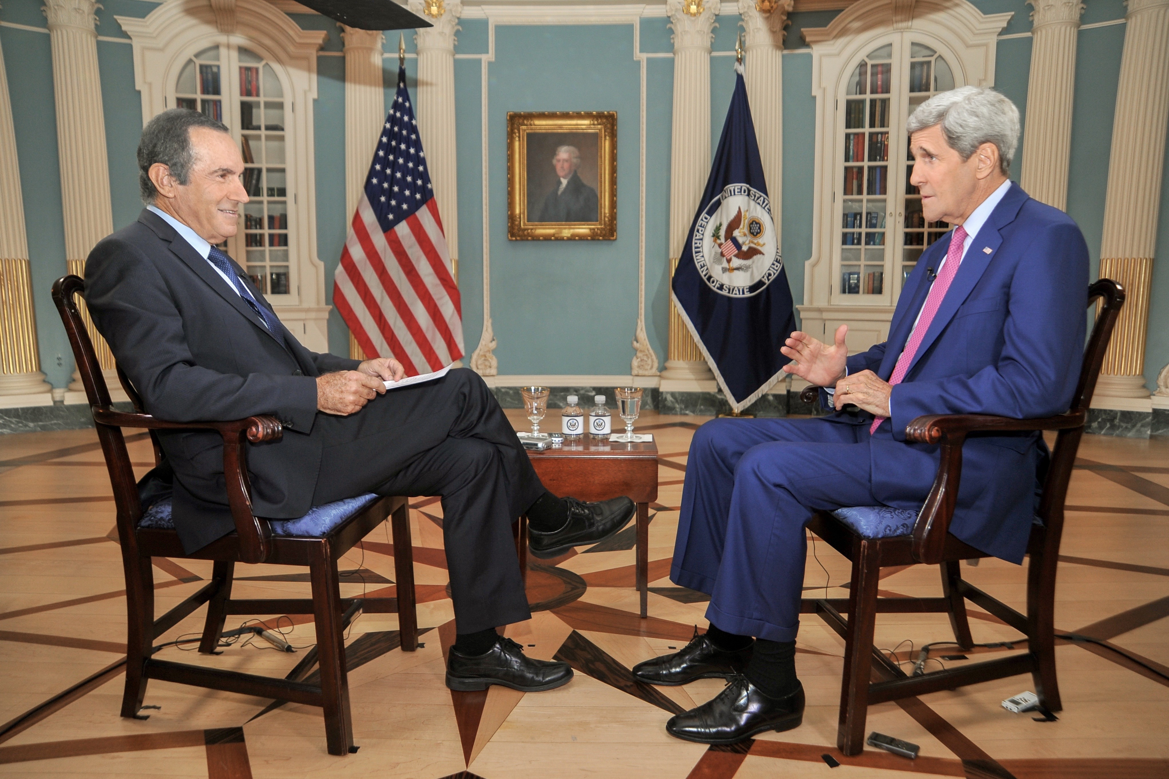 U.S. Secretary of State John Kerry speaks about the upcoming opening of the U.S. Embassy in Havana, Cuba, and broader Cuban and Latin American policy, during an interview with CNN en Español anchor, and Miami Herald columnist, Andres Oppenheimer on August 12, 2015, in the Treaty Room at the U.S. Department of State in Washington, D.C. [State Department Photo/Public Domain]